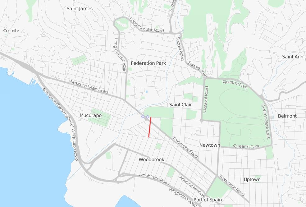 Map of the City of Port of Spain, Trinidad and Tobago This map may be incomplete, and may contain errors. Don't rely solely on it for navigation.